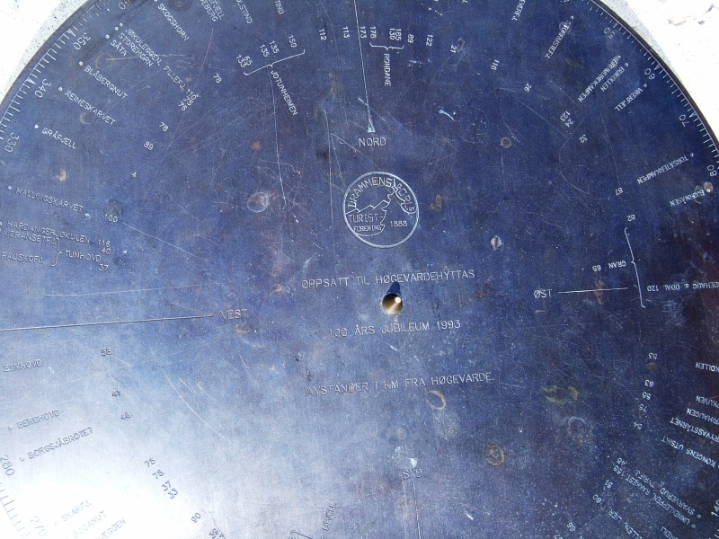 Own work. The iron plate on top of Høgevarde (1452), Buskerud, Norway. Summer 2005. Not enough wide angle.